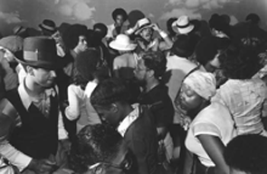 Photograph taken during the mid-1970s on the South side of Chicago, and featured in the book Light on the South Side (2009).